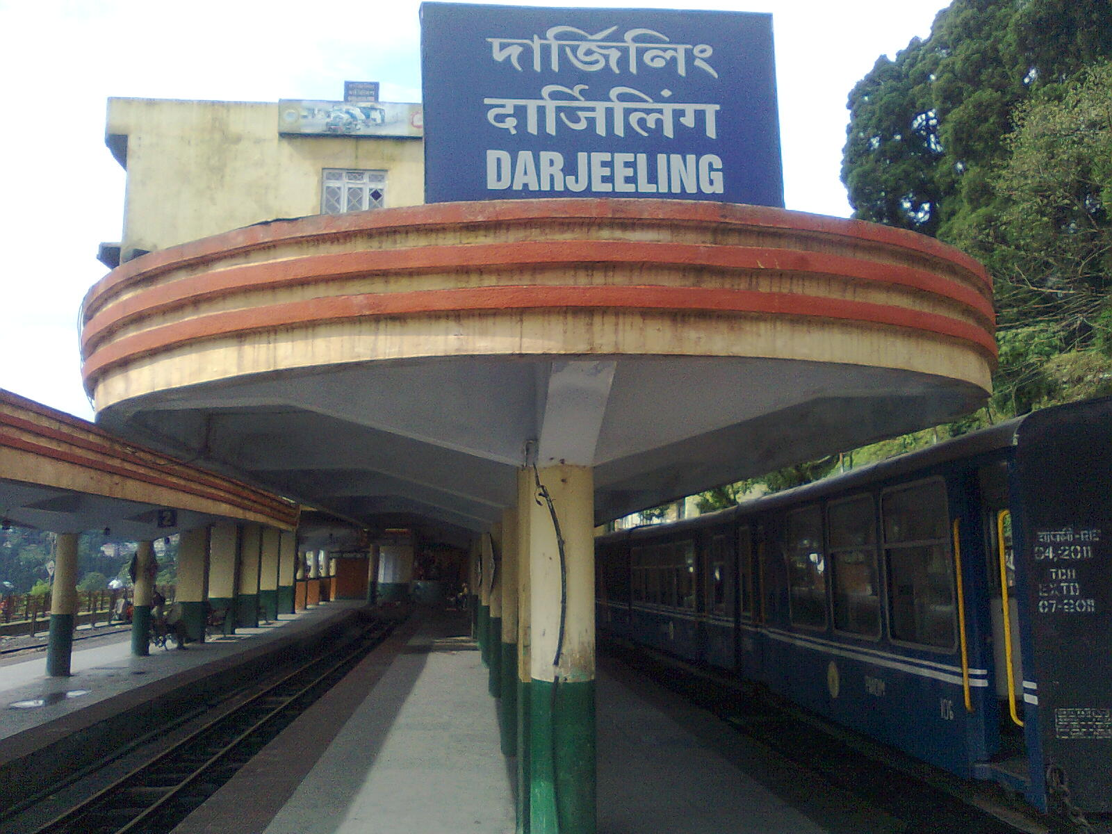 Darjeeling Railway Station